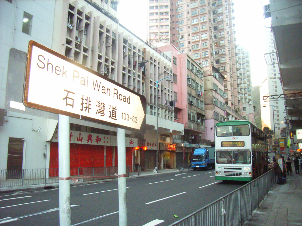 香港島南區 田灣 石排灣道